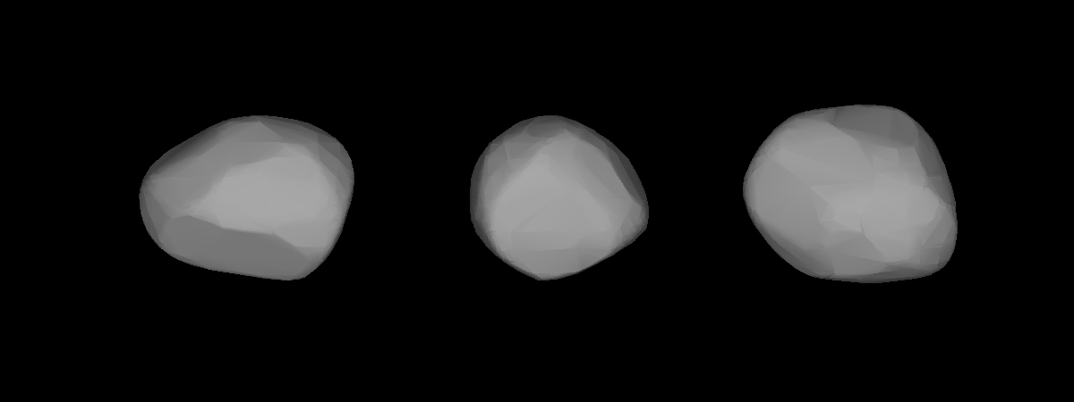 A three-dimensional model of 32 Pomona that was computed using light curve inversion techniques.